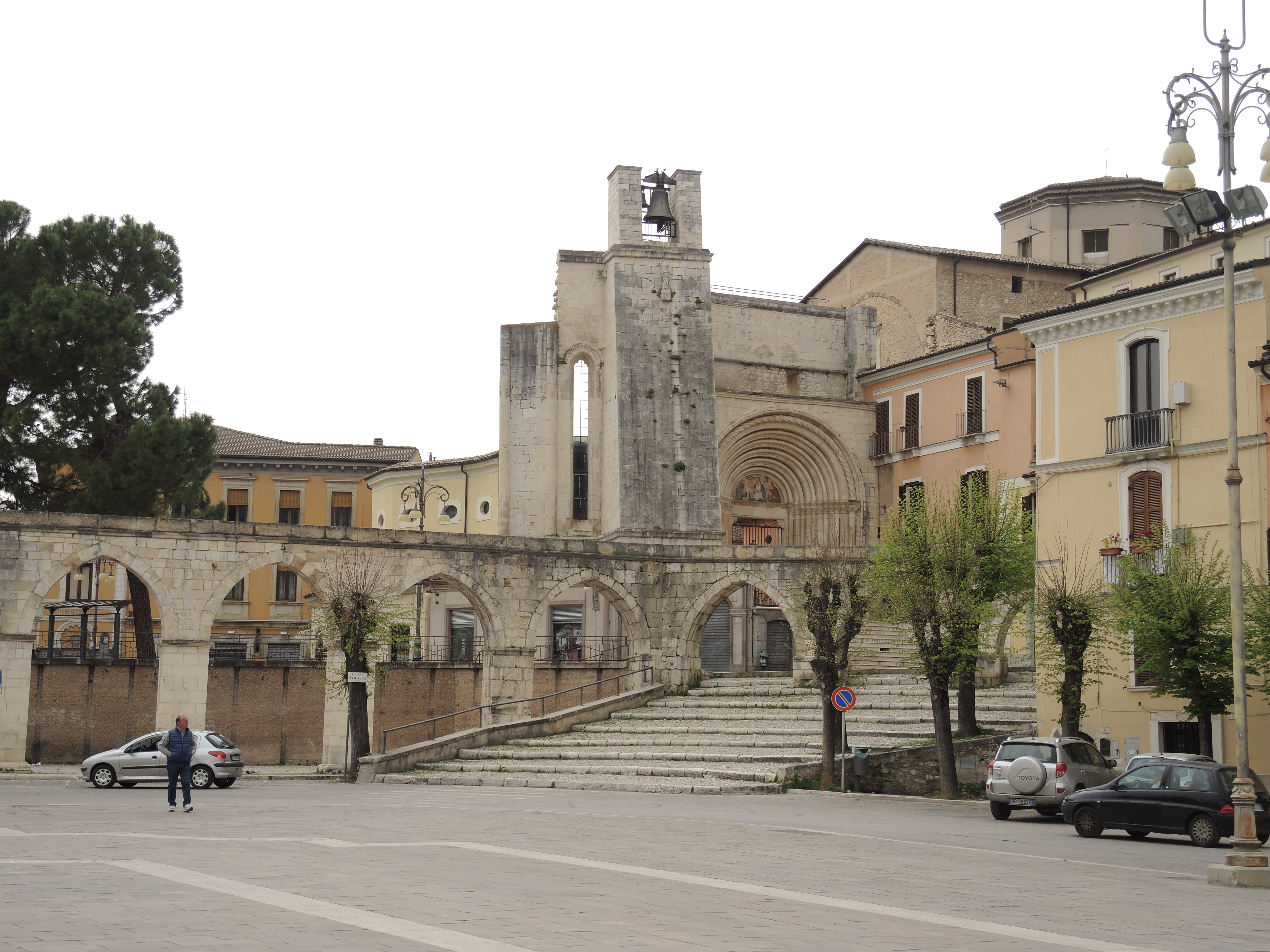 Sulmona: Piazza Giuseppe Garibaldi